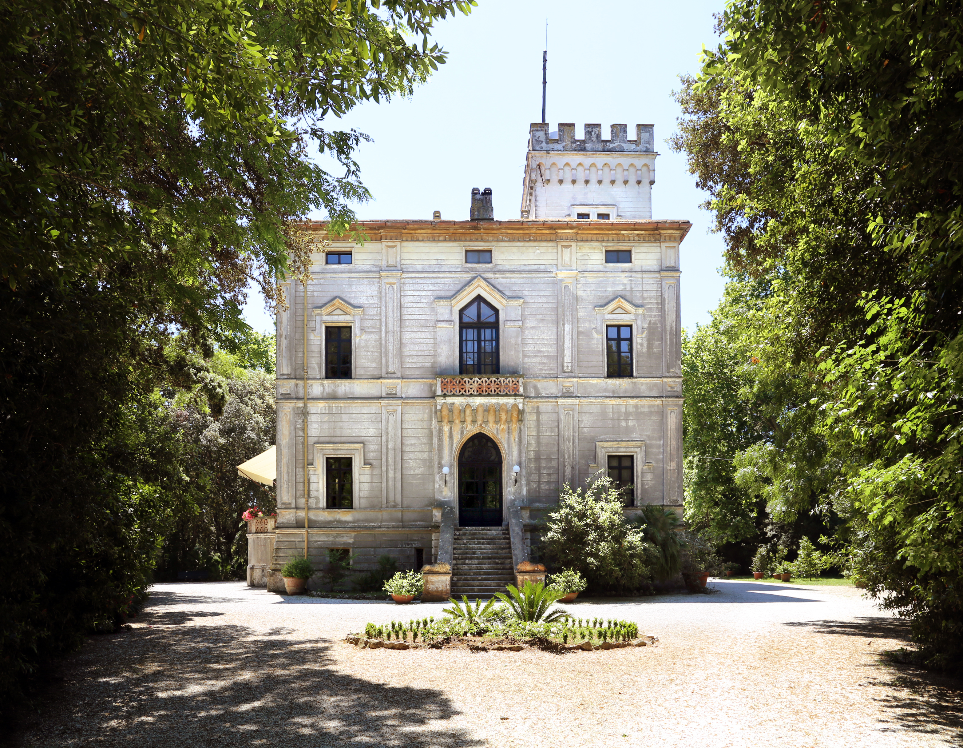 Villa Orlando (Viareggio)